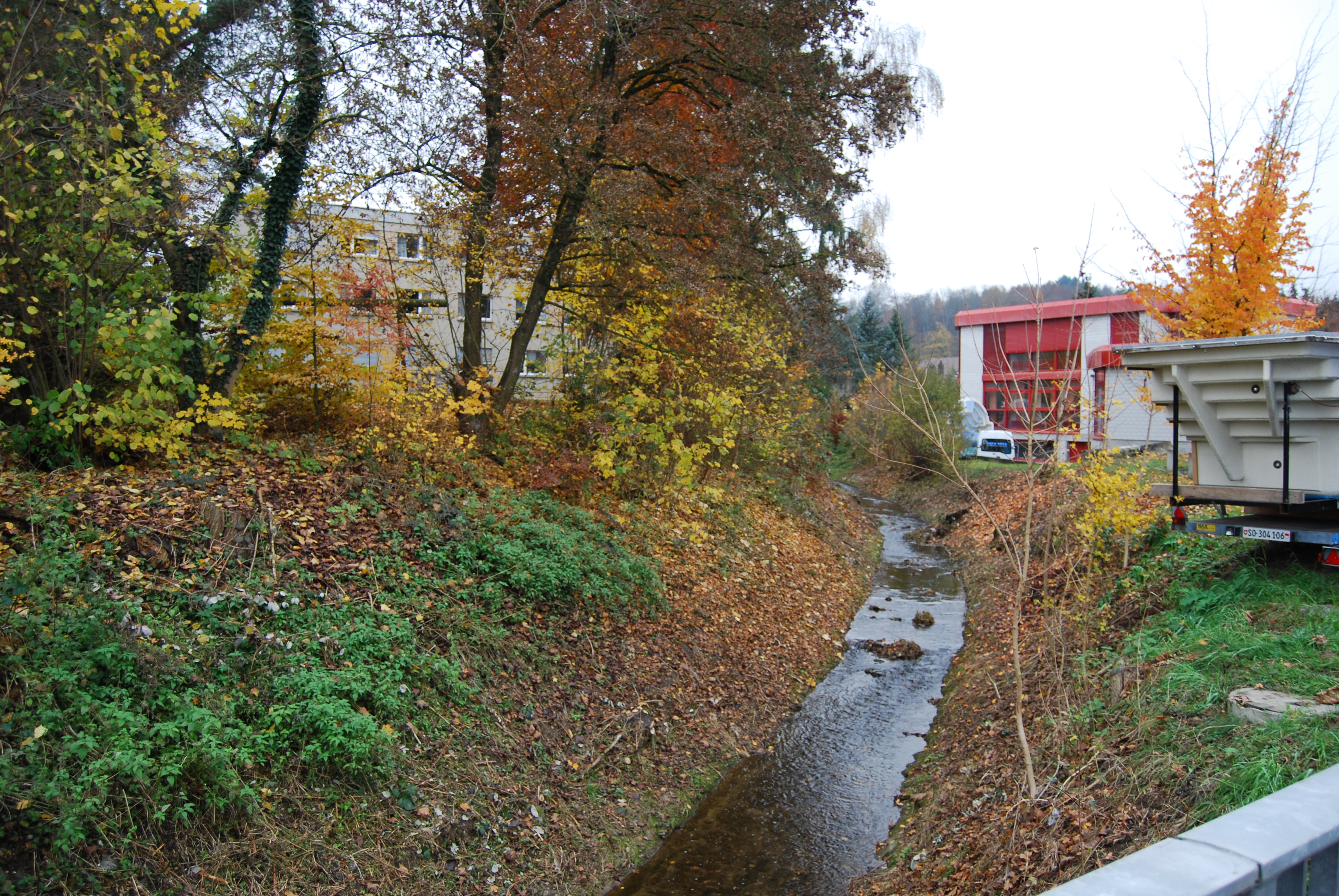 Stream Bibernbach at Lohn-Ammannsegg, canton of Solothurn, Switzerland